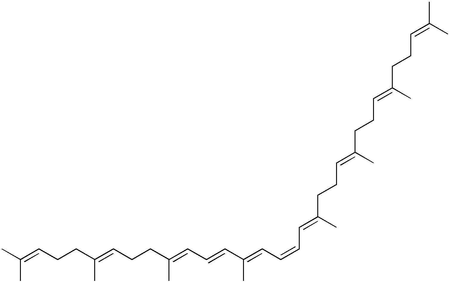 chemical structure of phytofluene